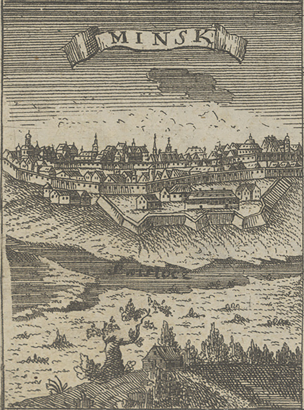 Drawing of Miensk (1772)